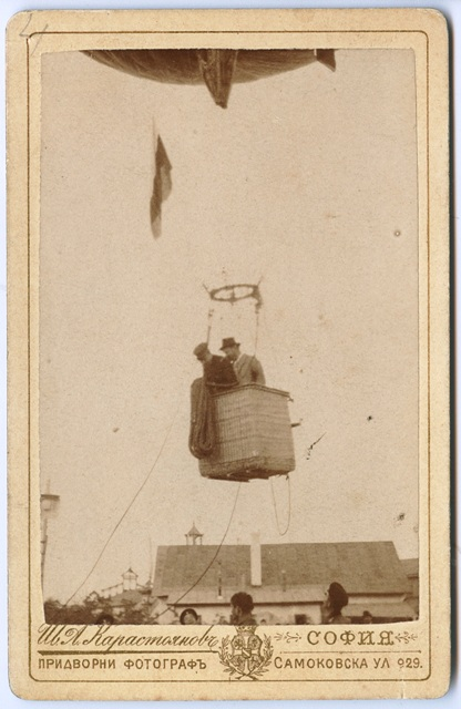 Nikola Genadiev in Eugène Godard's Balloon, Plovdiv, 19 August 1892